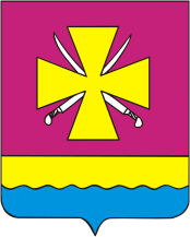 Dinskoy rayon (Krasnodar krai), coat of arms